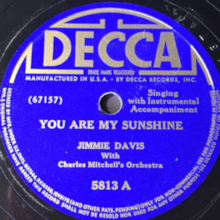 Jimmie Davis with Charles Mitchell's Orchestra - You Are My Sunshine 78 (Decca) Recorded February 5, 1940, in New York, NY